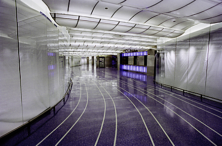 Photograph by Serhii Chrucky, 2005, Chicago, Illinois.